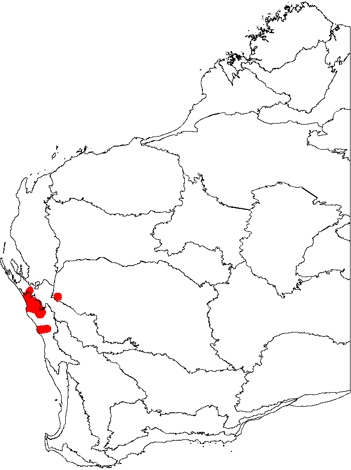 This is a map of Western Australia, showing the distribution of Banksia lindleyana (Porcupine Banksia) superimposed on a background of the IBRA 6.1 biogeographic regions.